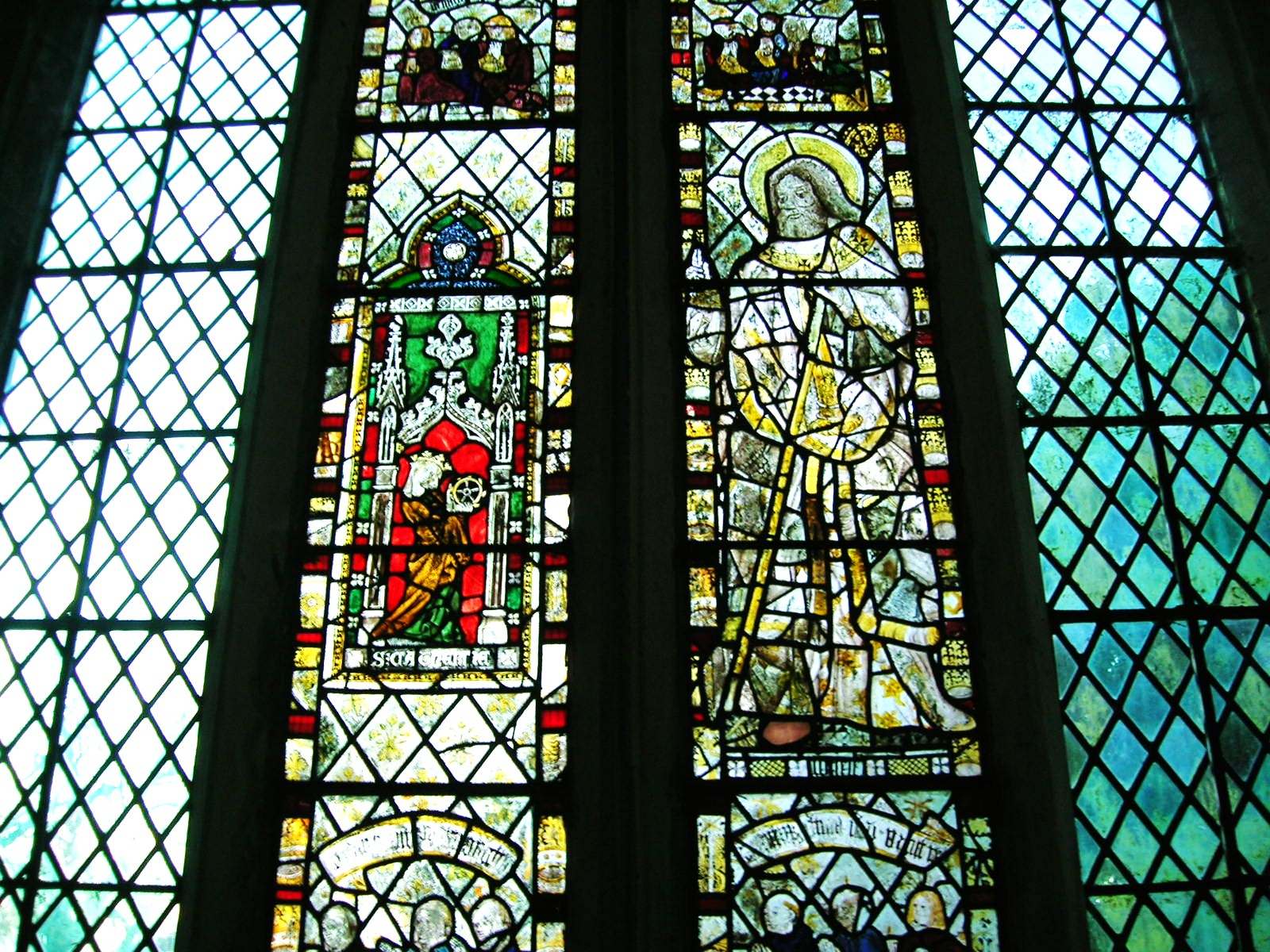 Part of the west window of the south aisle of the priory church of St Mary, Deerhurst, Gloucestershire. It includes an early 14th-century panel representing St Catherine of Alexandria (left) and an early 15th-century panel representing St Alphege of Canterbury (right).